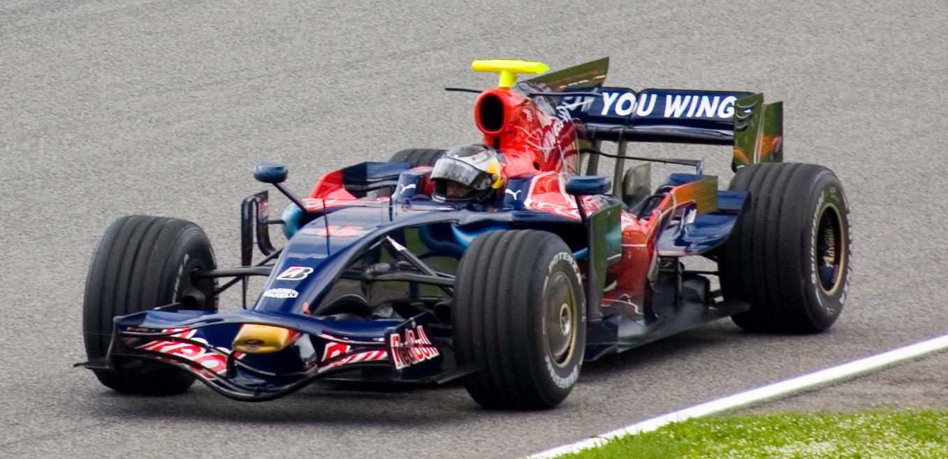 Sebastian Vettel testing for Scuderia Toro Rosso at the Circuit de Catalunya in June 2008.